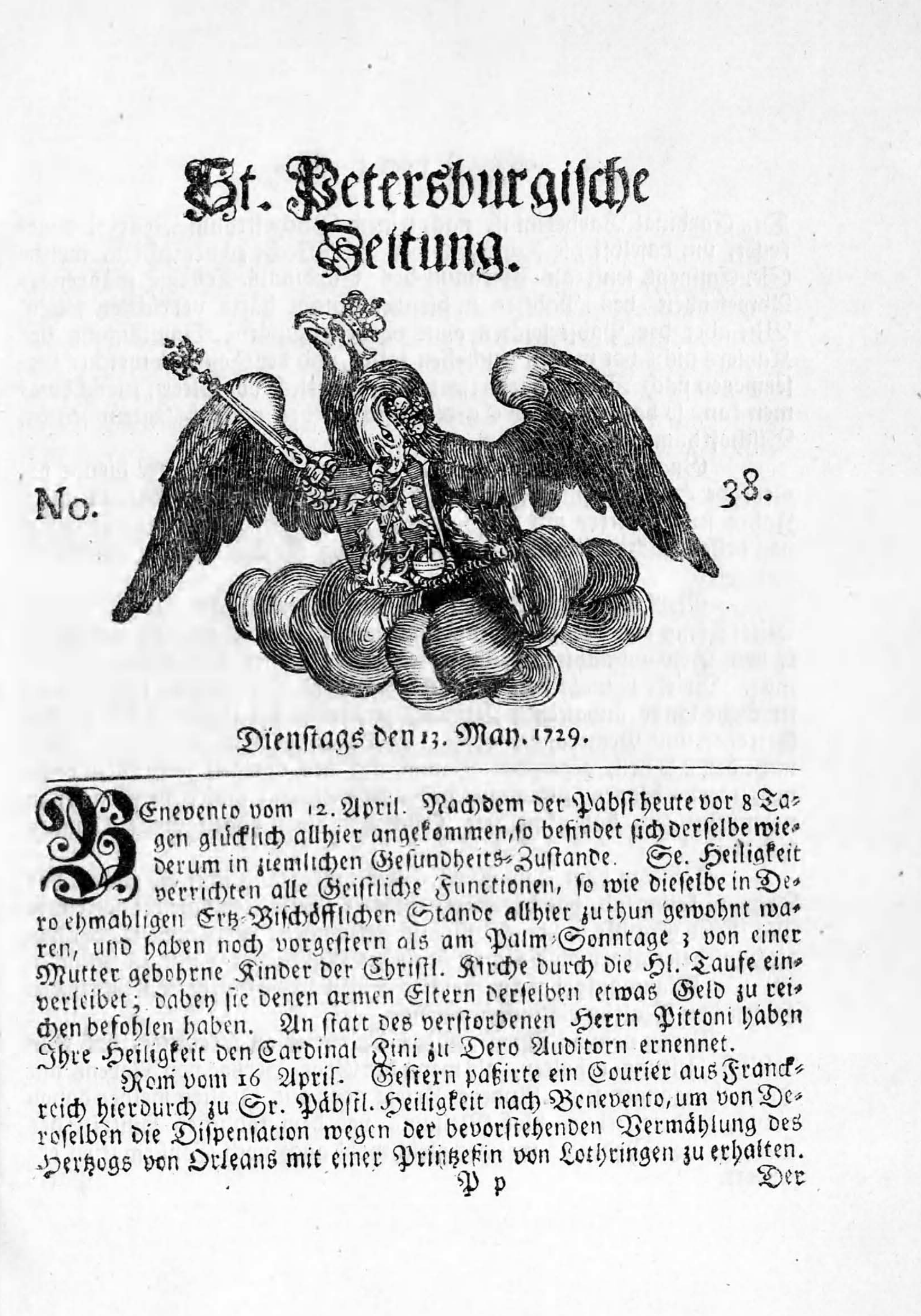 First page of the newspaper St. Petersburgische Zeitung, issue 38, 1729